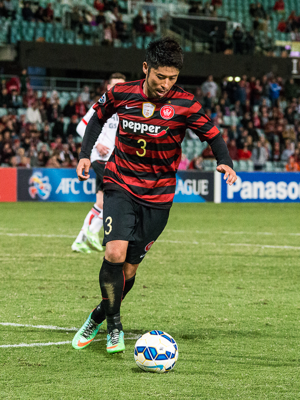 Yūsuke Tanaka playing for Western Sydney Wanderers FC against FC Seoul in the Asian Champions League 2015